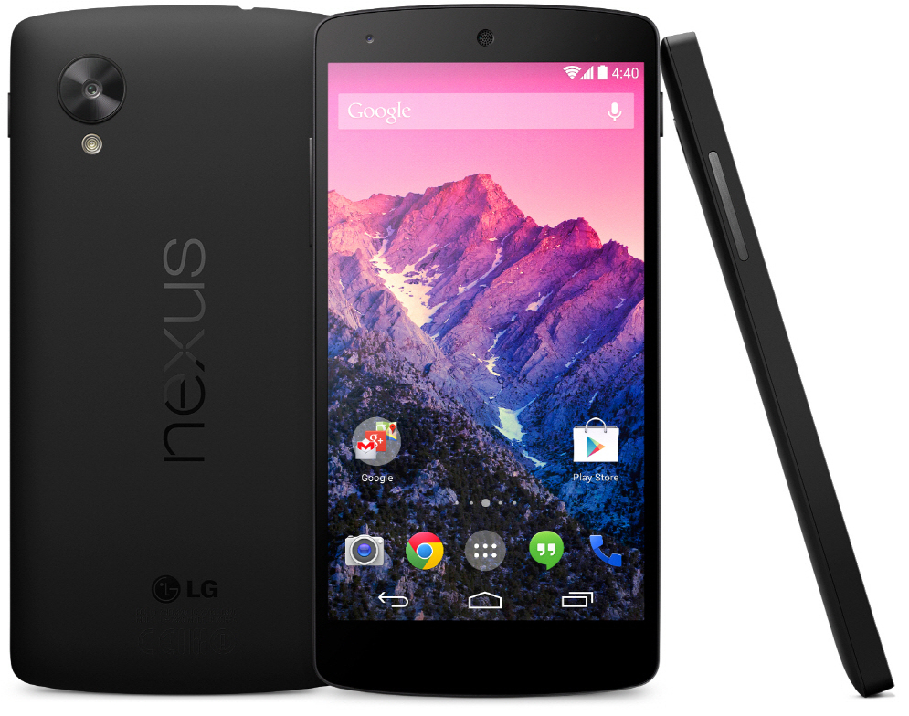 Nexus 5 with cover.